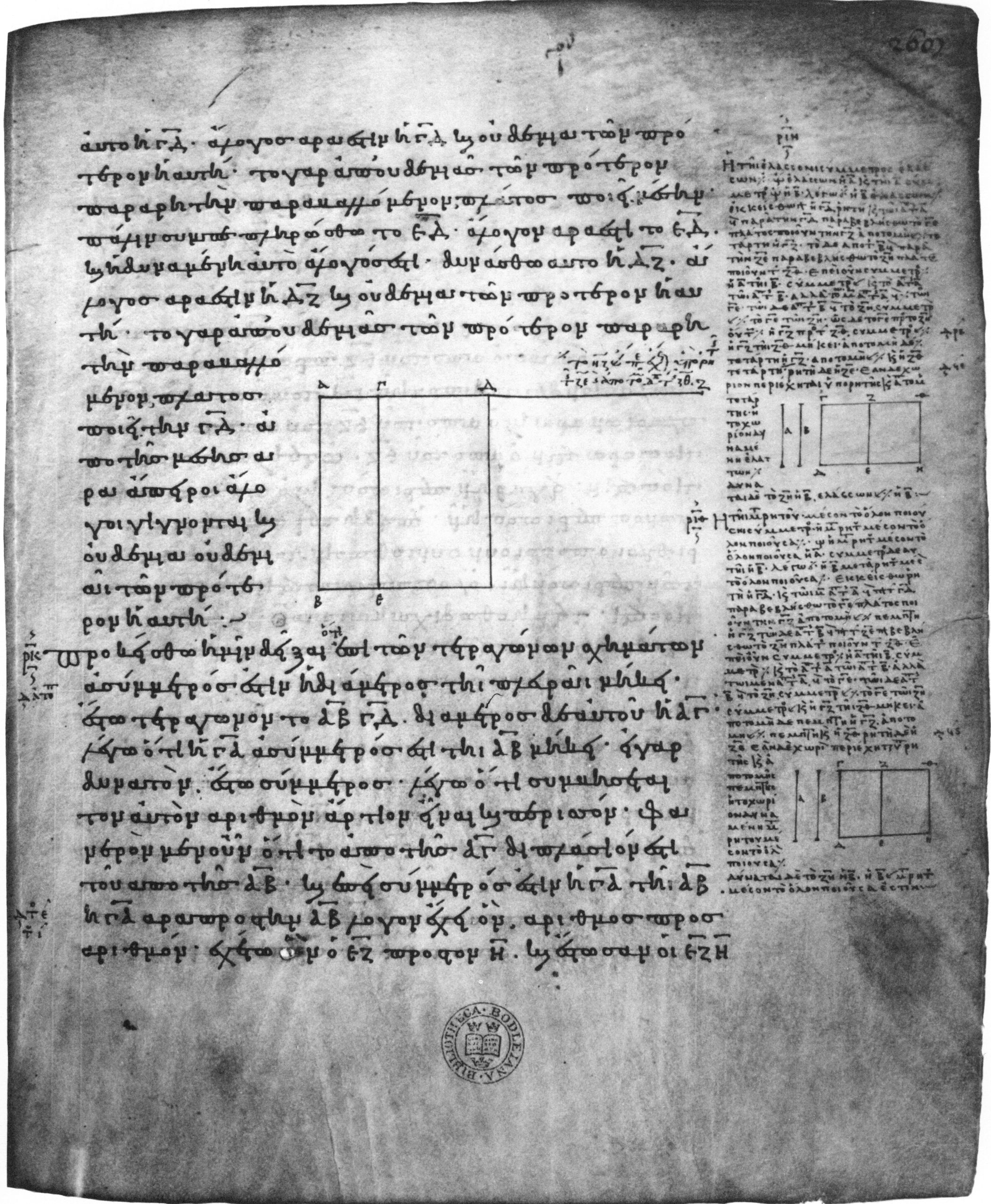 Euclid, Elements 10, appendix in Oxford, Bodleian Library, MS. D’Orville 301, fol. 268r.